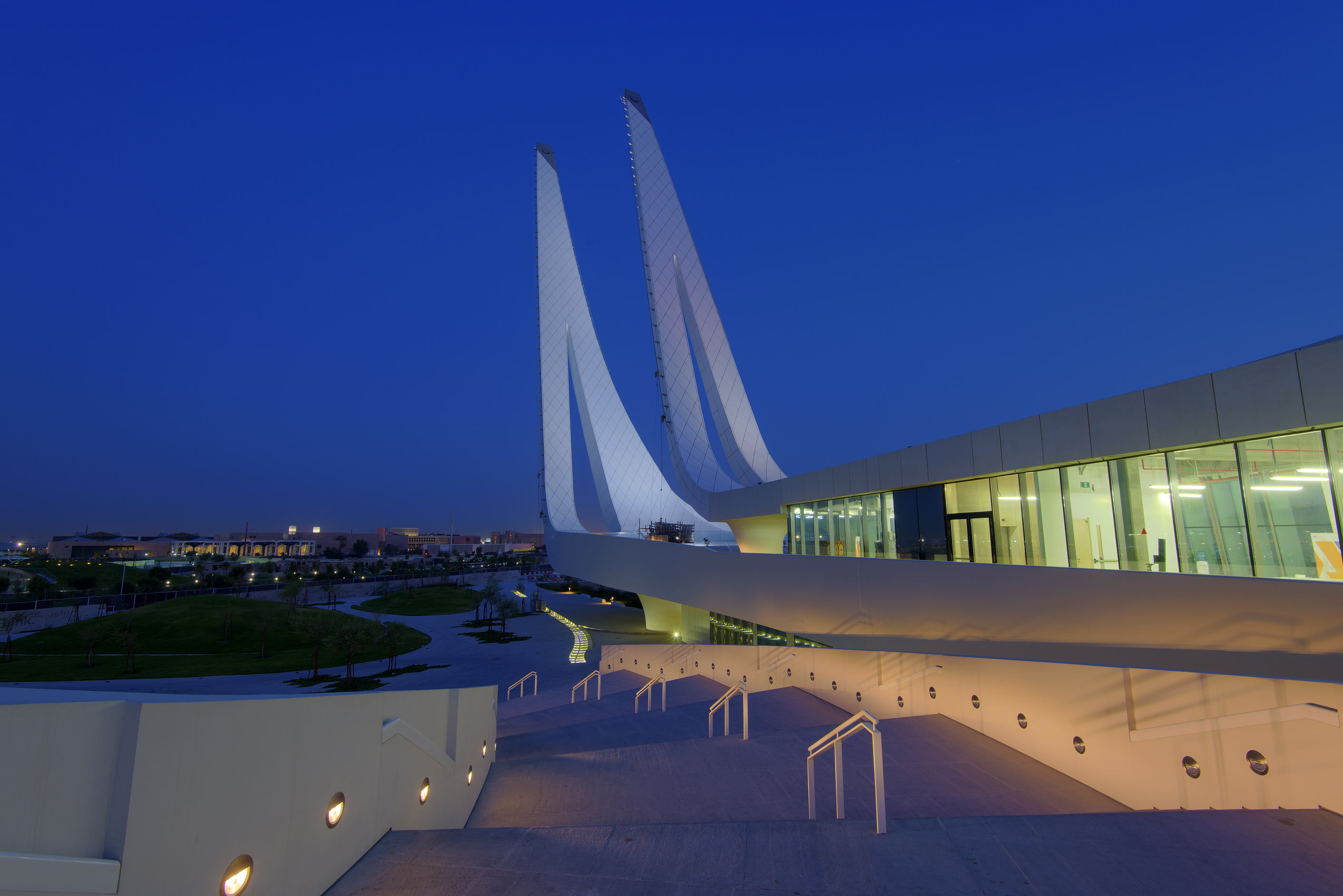 View from the Education City Mosque in Al Rayyan, Qatar.